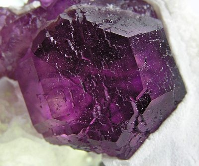 Fluorite Locality: Wushan Fluorite mine, De'an County, Jiujiang Prefecture, Jiangxi Province, China (Locality at ) Size: 6.2 x 4.2 x 3.9 cm. This is the rarer form of fluorite from the now-finished finds at this mine (the other form is sharp octahedrons that mix green and purple tones). These deep purple crystals were never available in good numbers. We shot this one under very strong light so you could see the internal gemminess and intense color. The crystals measures 2.7 cm across.